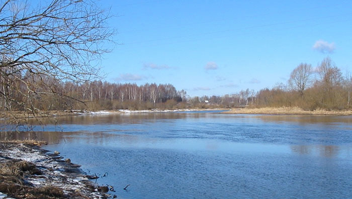 Emajõgi river, Estonia